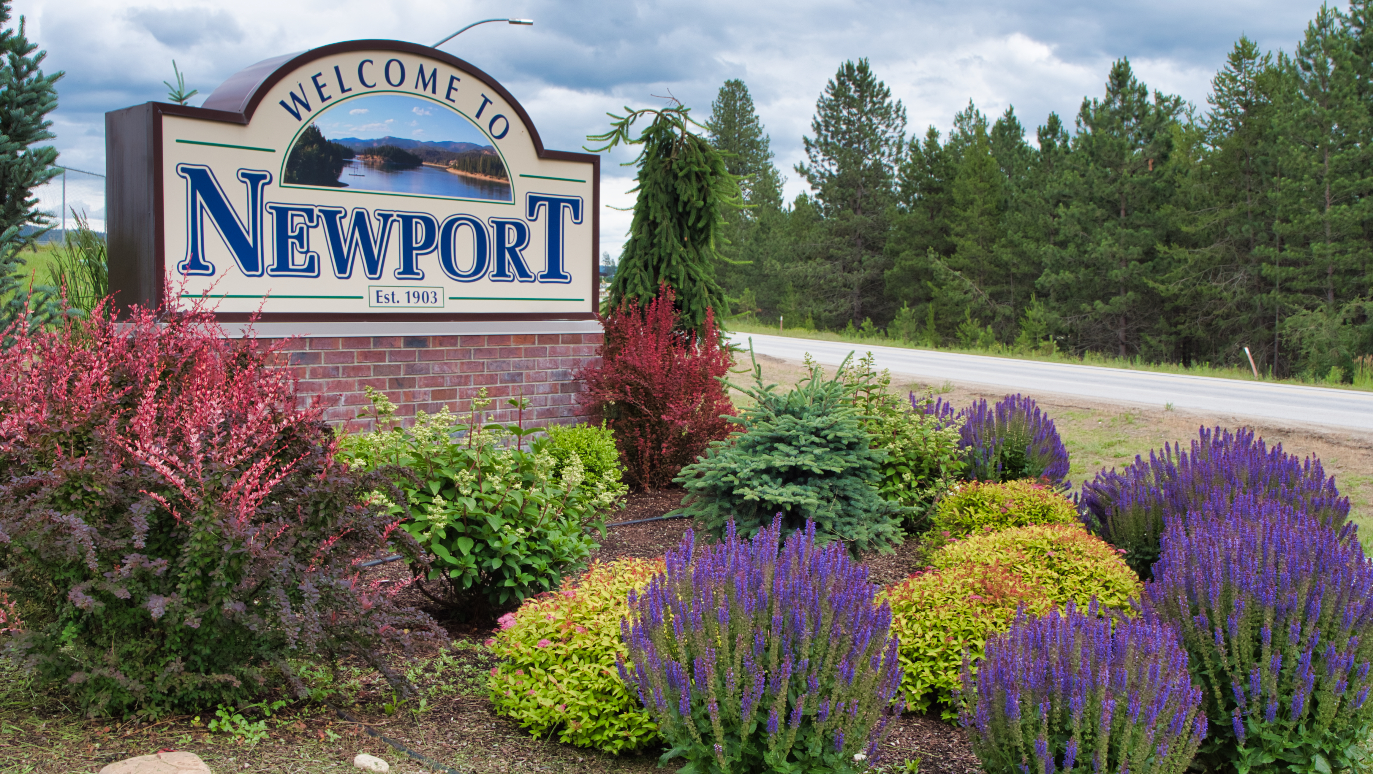 This is the sign seen when entering the city of Newport, WA.